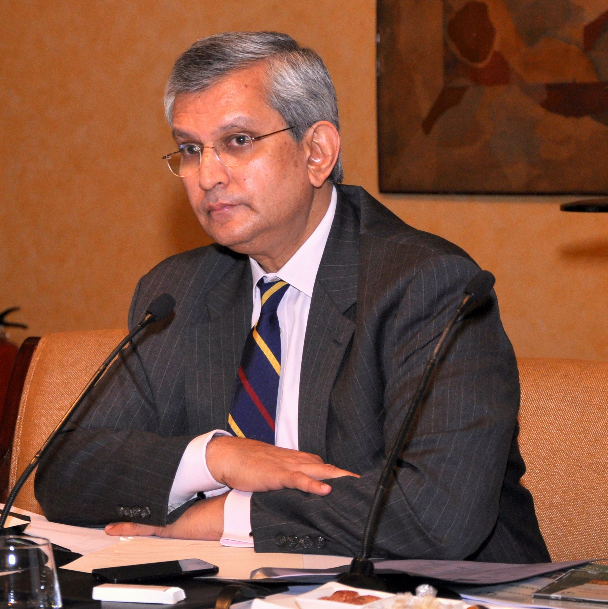 Dr Prajapati Trivedi,Indian Economist at the International Workshop